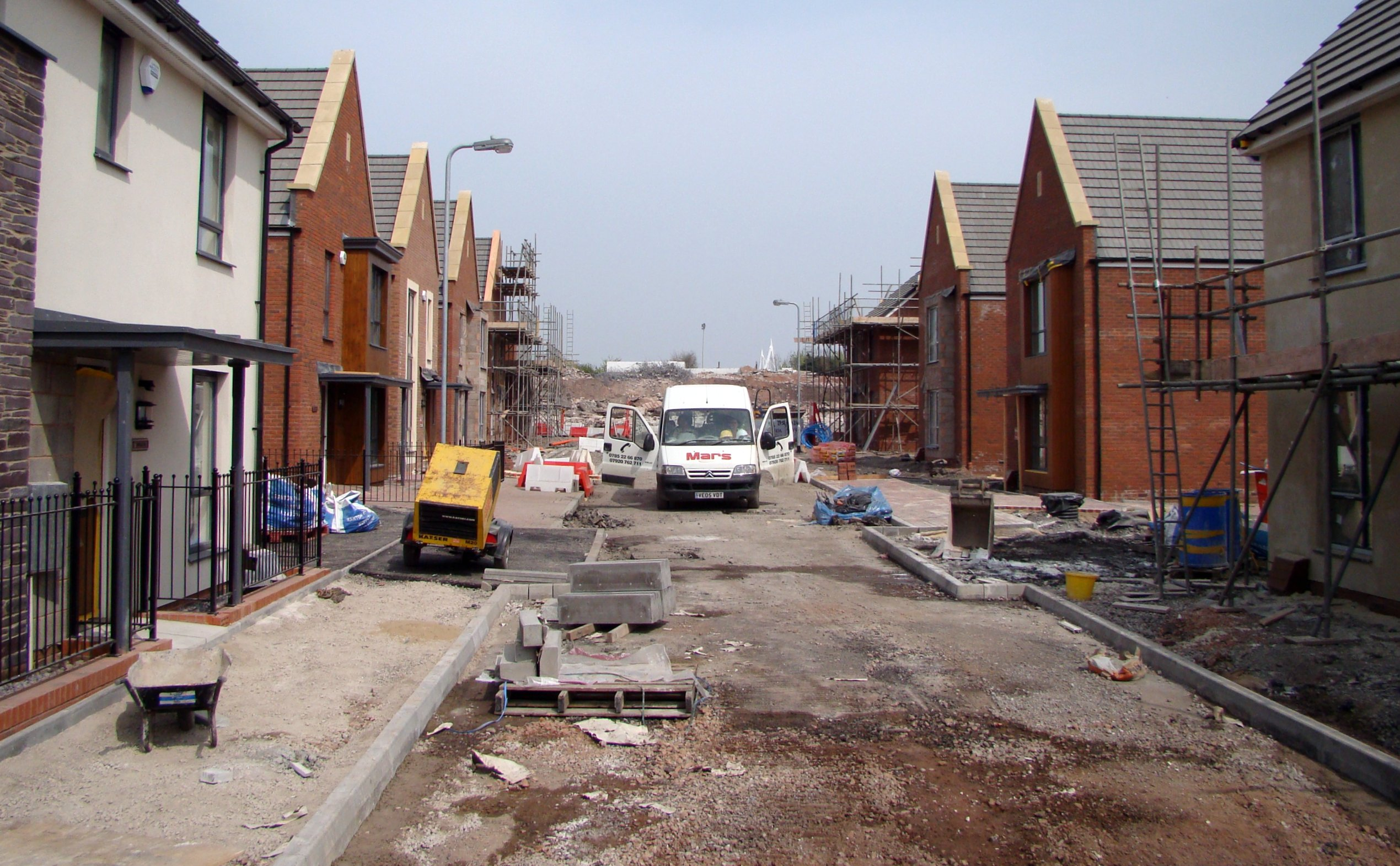 Ninian Park housing estate, Cardiff, Wales